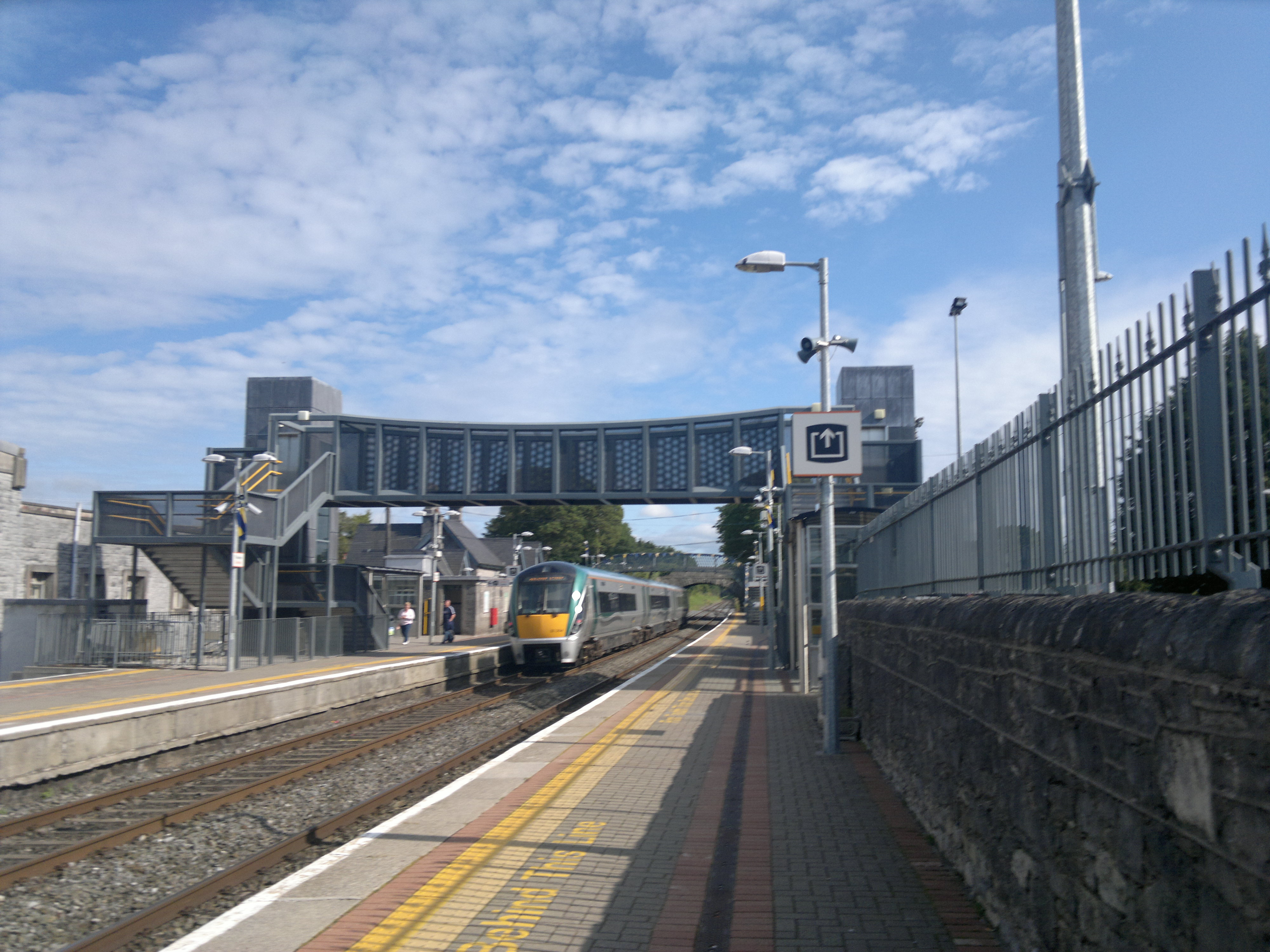 22k Thurles